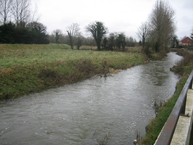 Tolka River, Clonee Beside Clonee Village flowing towards Blanchardstown.